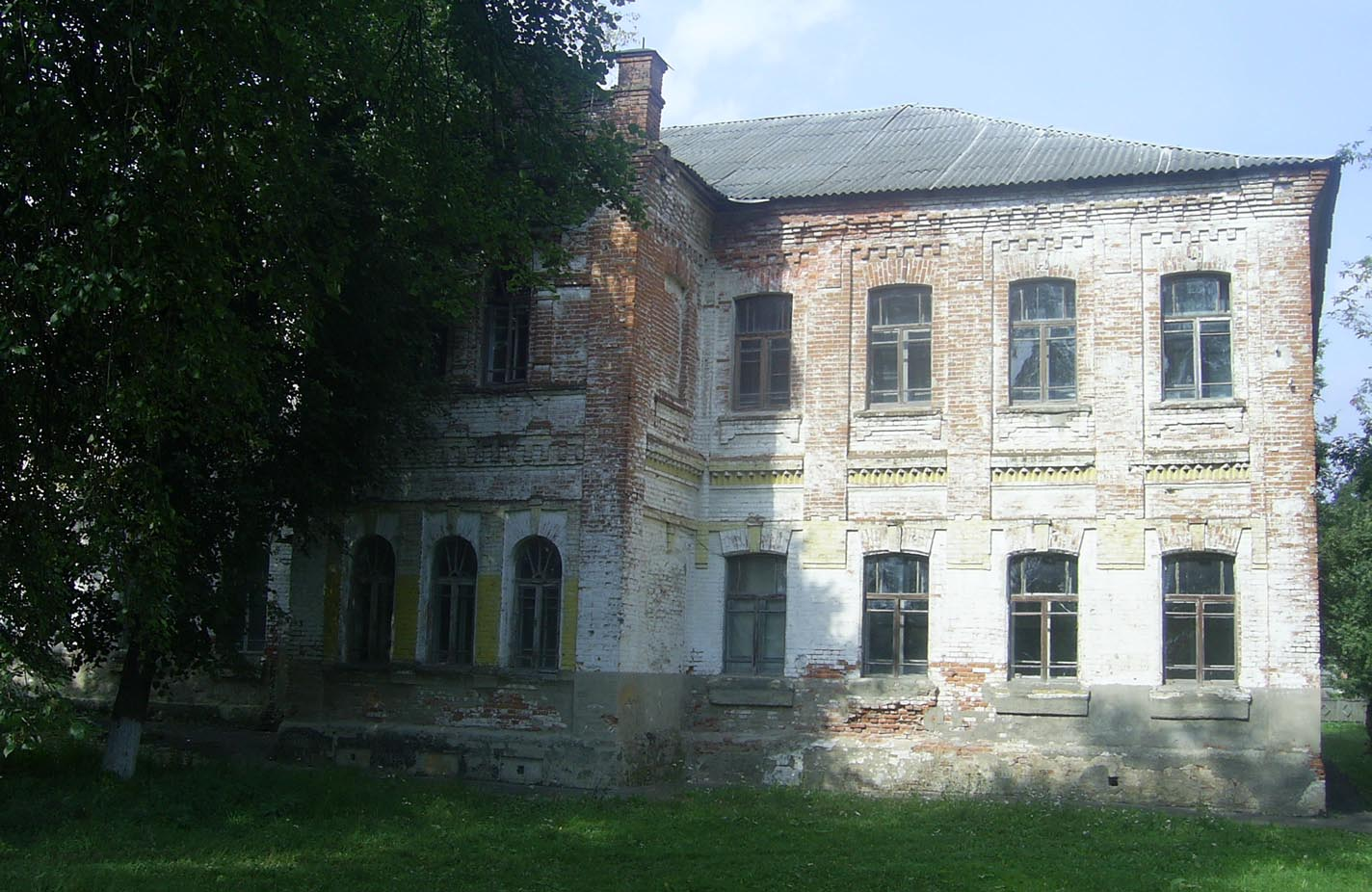 School building in Zhiryatino, Bryansk oblast, Russia